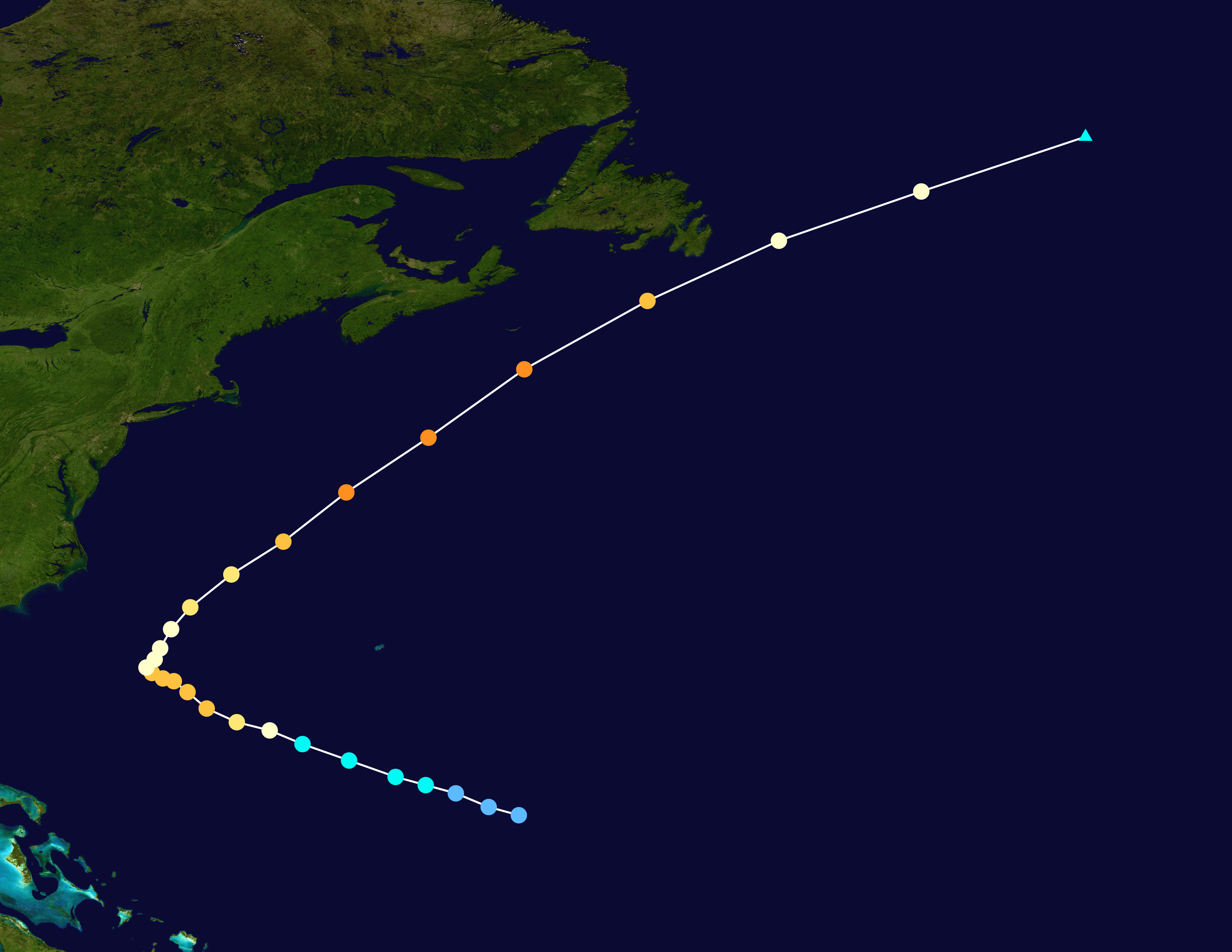 Hurricane Ella (1978) track. Uses the color scheme from the Saffir-Simpson Hurricane Scale.